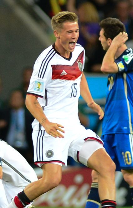 Germany wins it's 4th FIFA World Cup after beating Argentina 1-0.